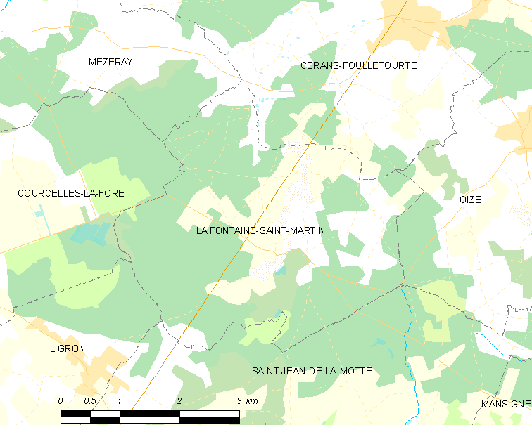 Map of French municipality